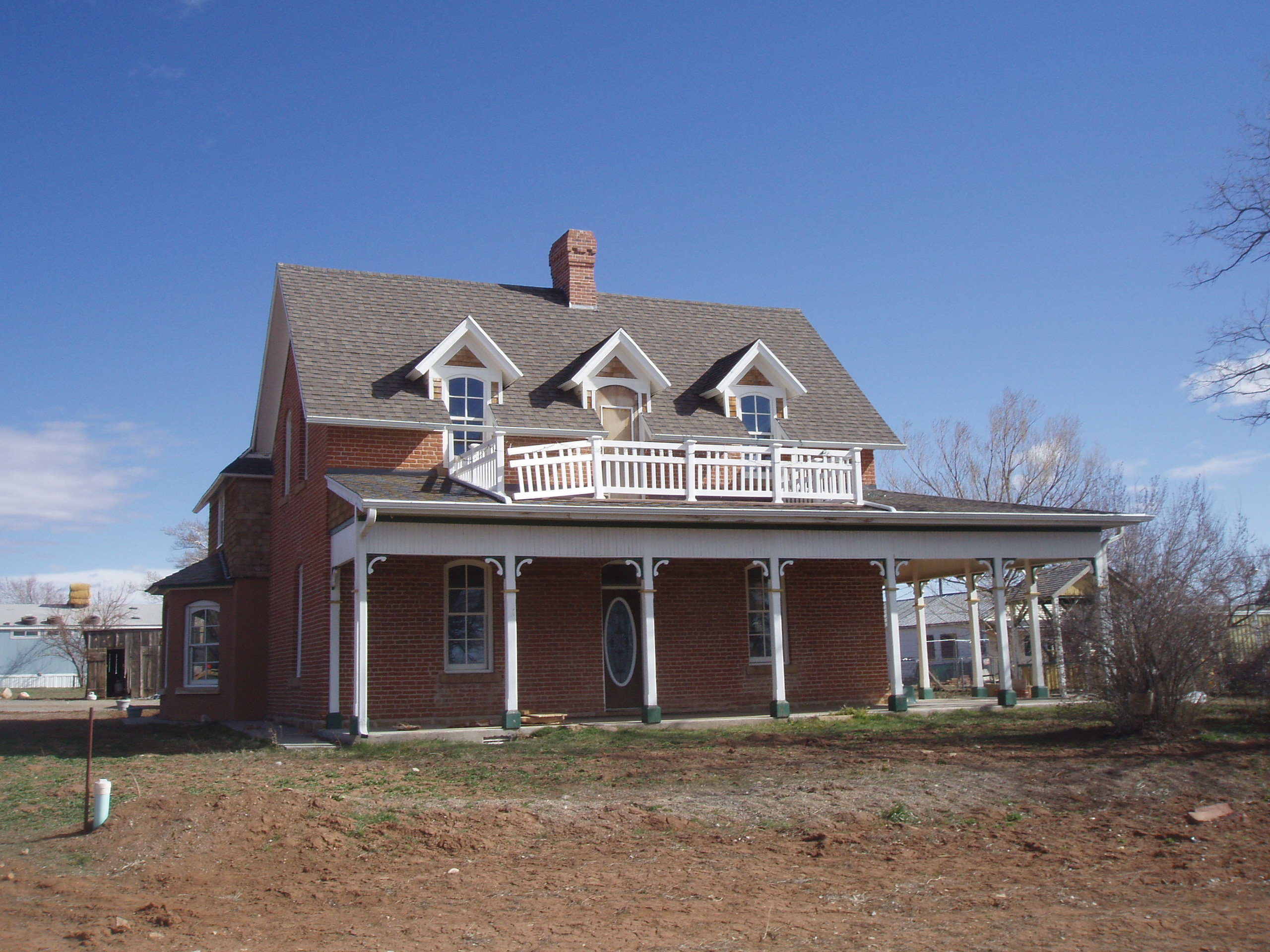 The Frederick Isaac and Mary M. Jones House, a historic home in Monticello, Utah, United States.